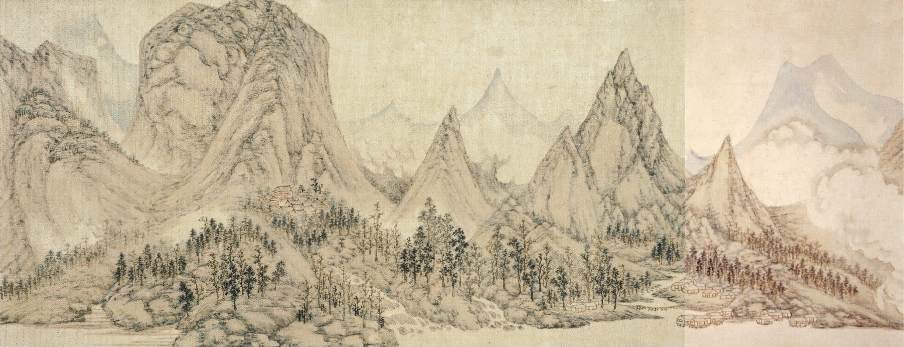 Detail of landscape by Wu Pin (Wu Bin), ink and color on paper, Chinese, 1601, Honolulu Museum of Art, accession 3519.1